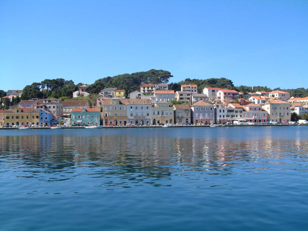 harbour of Mali Lošinj, Europe, Croatia, Mali Losinj island. ... by K. Korlevic